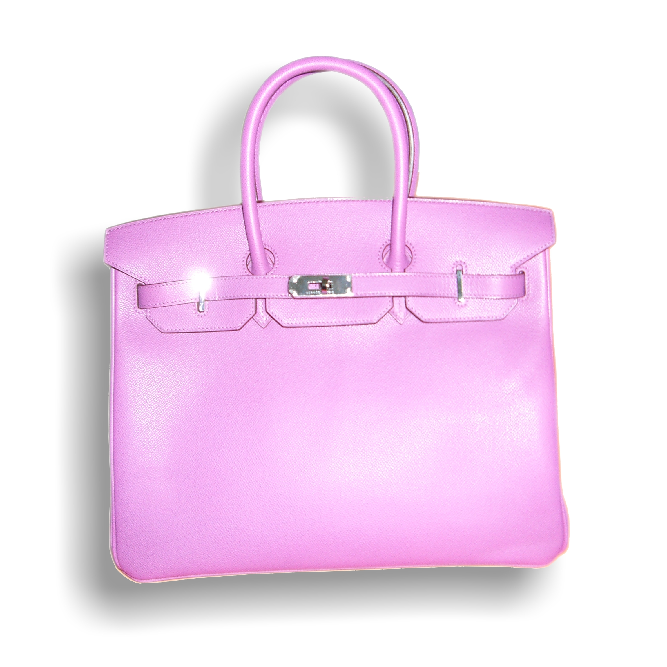 A picture of a genuine Hermes Birkin taken by me.